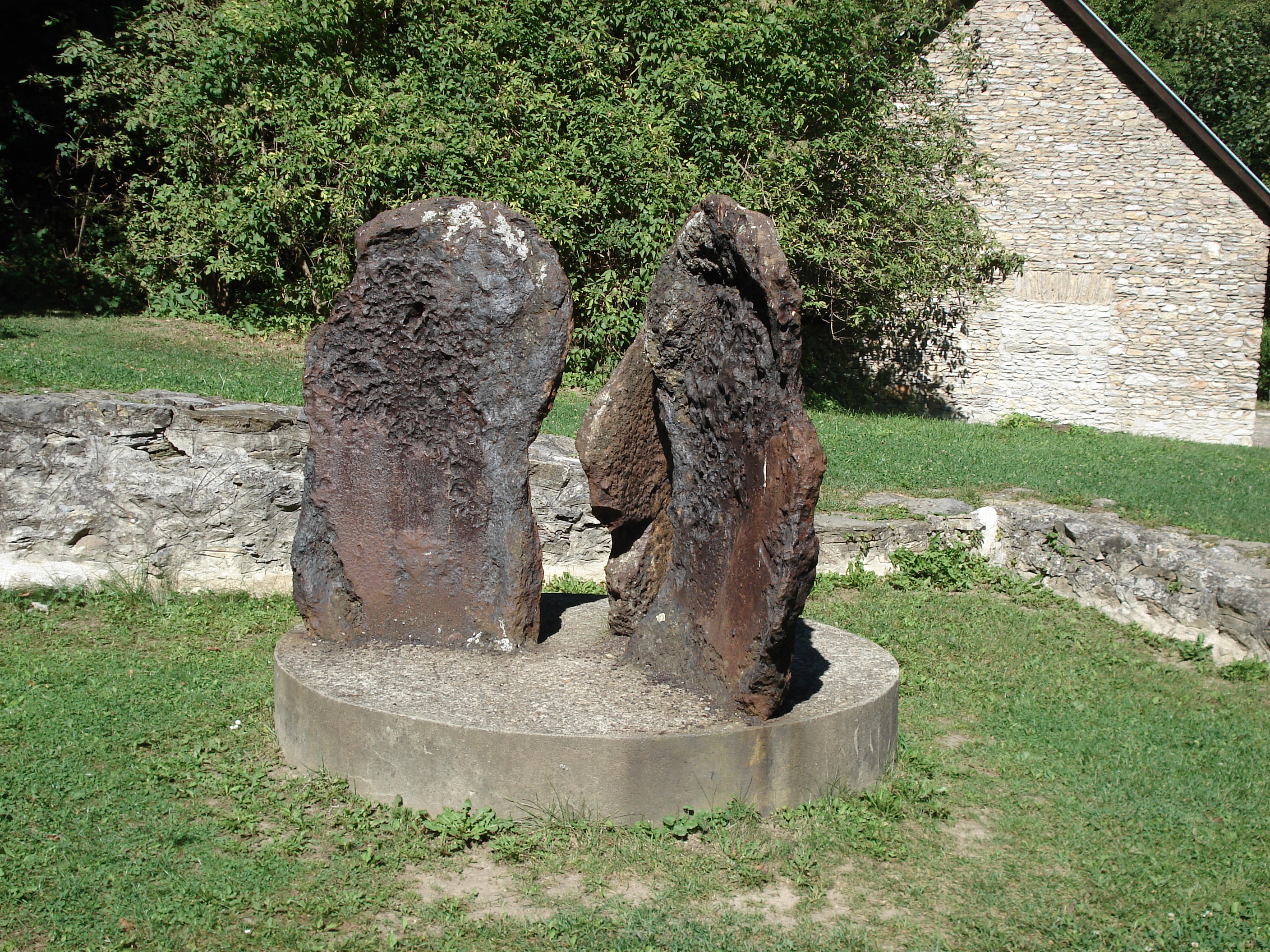 Iron sponge. Massa Museum, Újmassa, Miskolc, Hungary